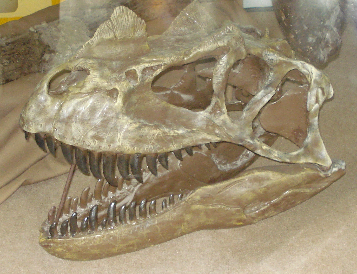 Ceratosaurus skull